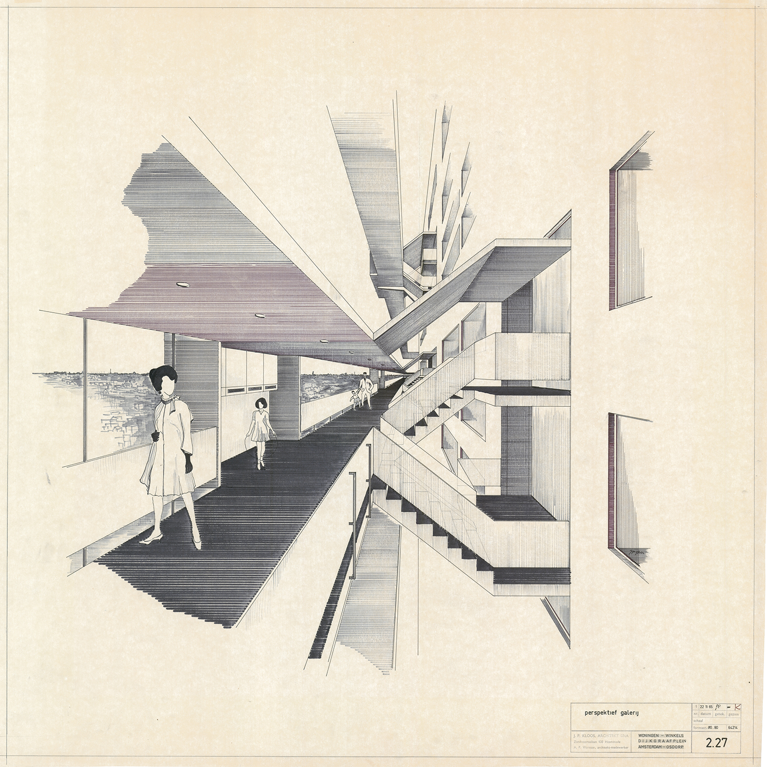 J.P. Kloos. Gallery access flat, Amsterdam, 1972. Collection Het Nieuwe Instituut, KLOO t9